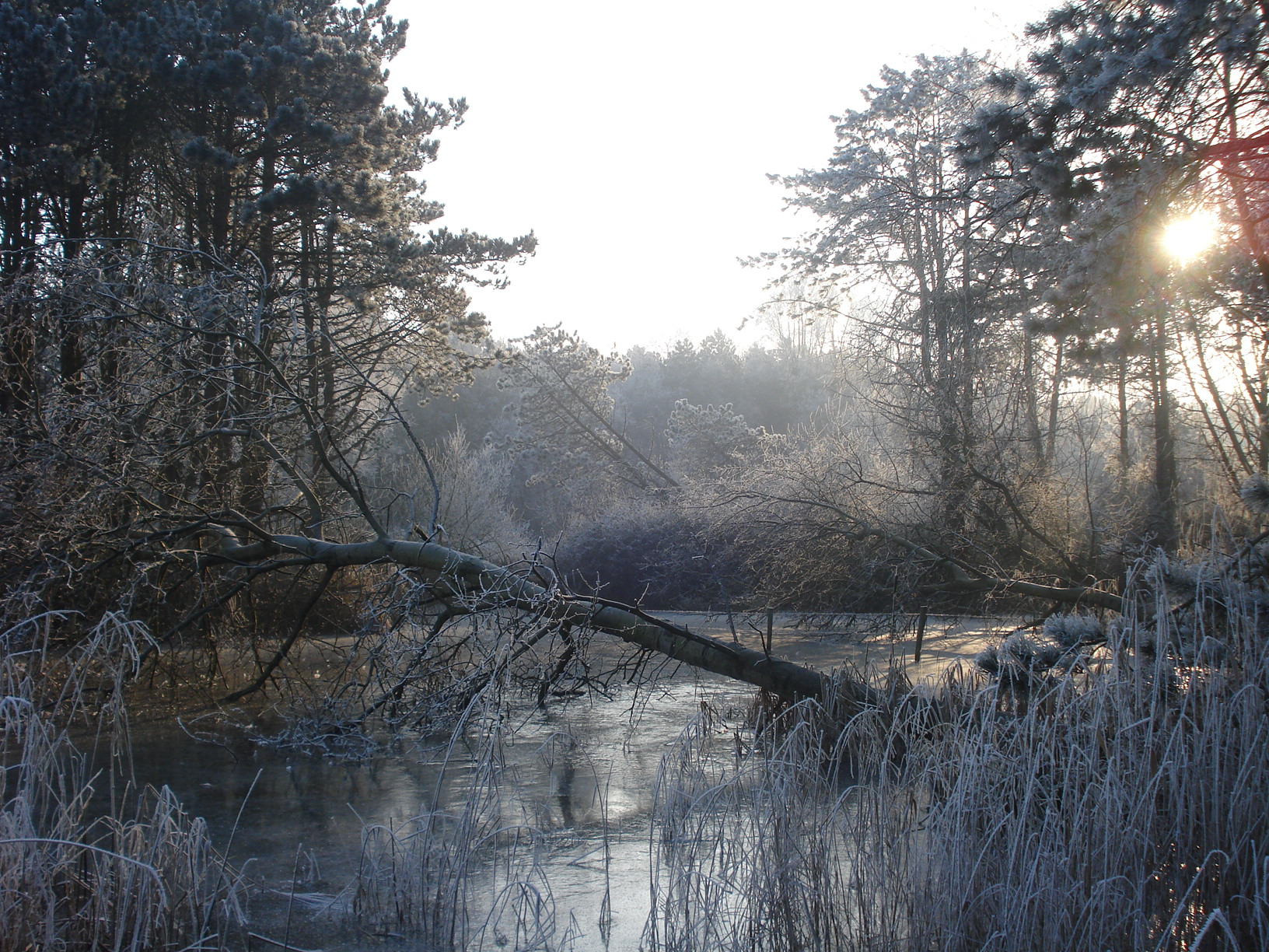 Middelduinen in de winter